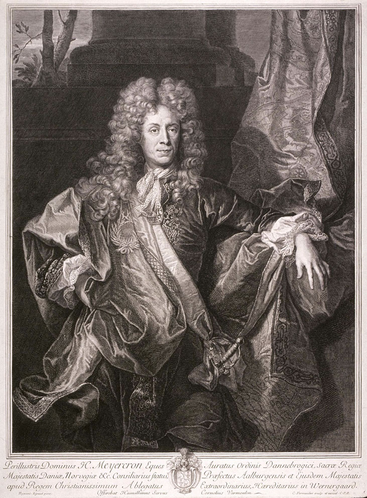 Portrait of Henning Meyercron